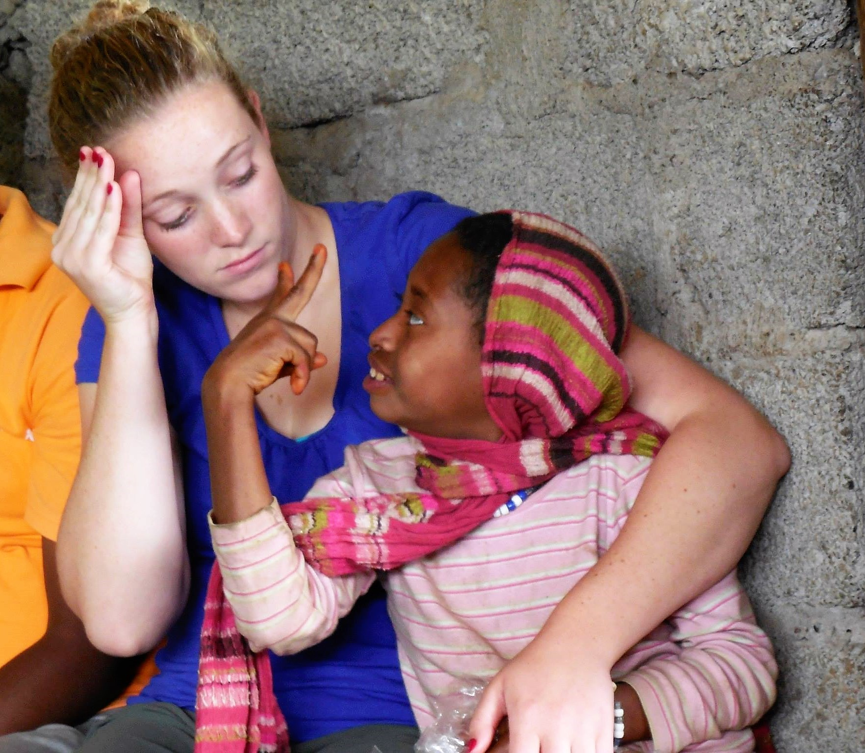 Mary Grace Hamme pictured signing with a young deaf Ethiopian girl